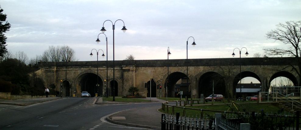 Isambard Kingdom Brunel's railway viaduct in Chippenham, Wiltshire, England